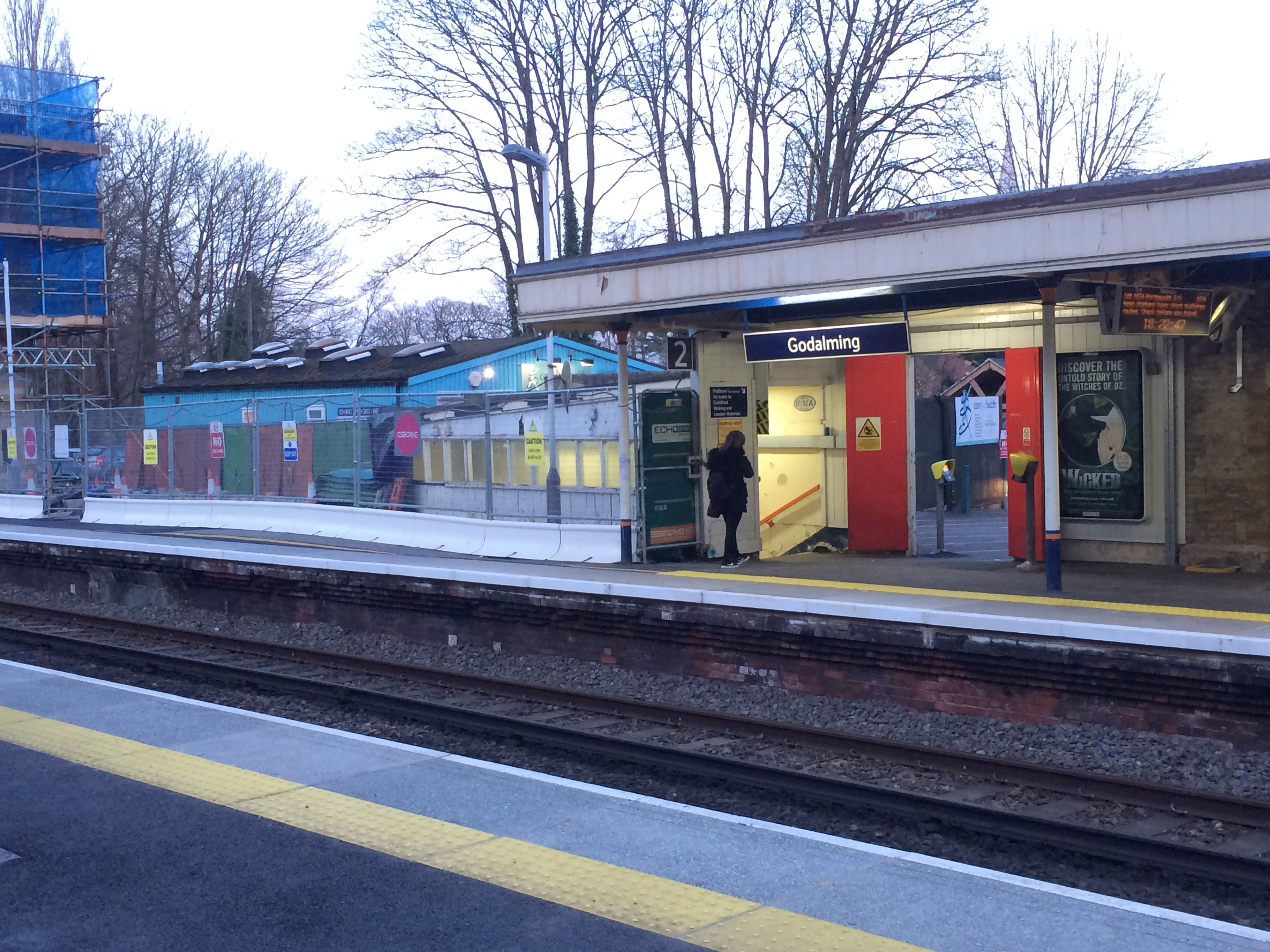 A view of the platform showing the entrance to old pedestrian subway, and (at the left) the site of a new pedestrian bridge under cionstructioin